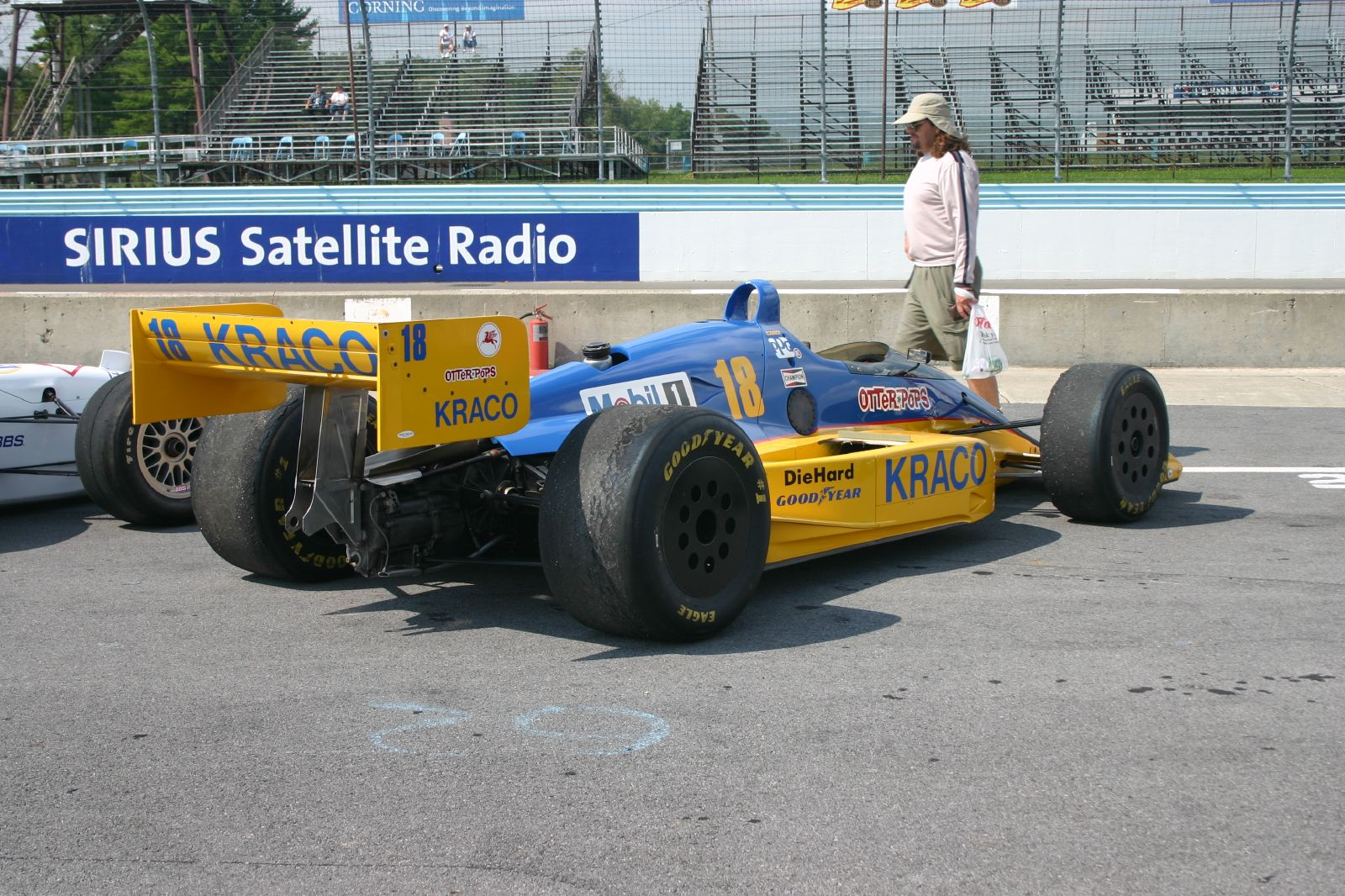 Bobby Rahal's #18 Lola/Cosworth Indy car. Rahal started 7th in the Indianapolis 500 in 1989 and finished 26th in this Kraco sponsored automobile.